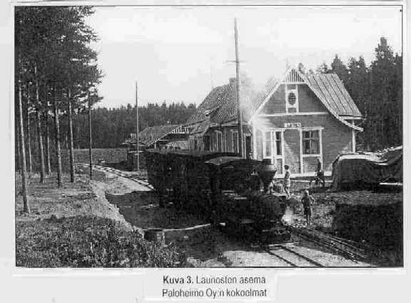 Launonen railway station in Loppi, Finland. Postcard.